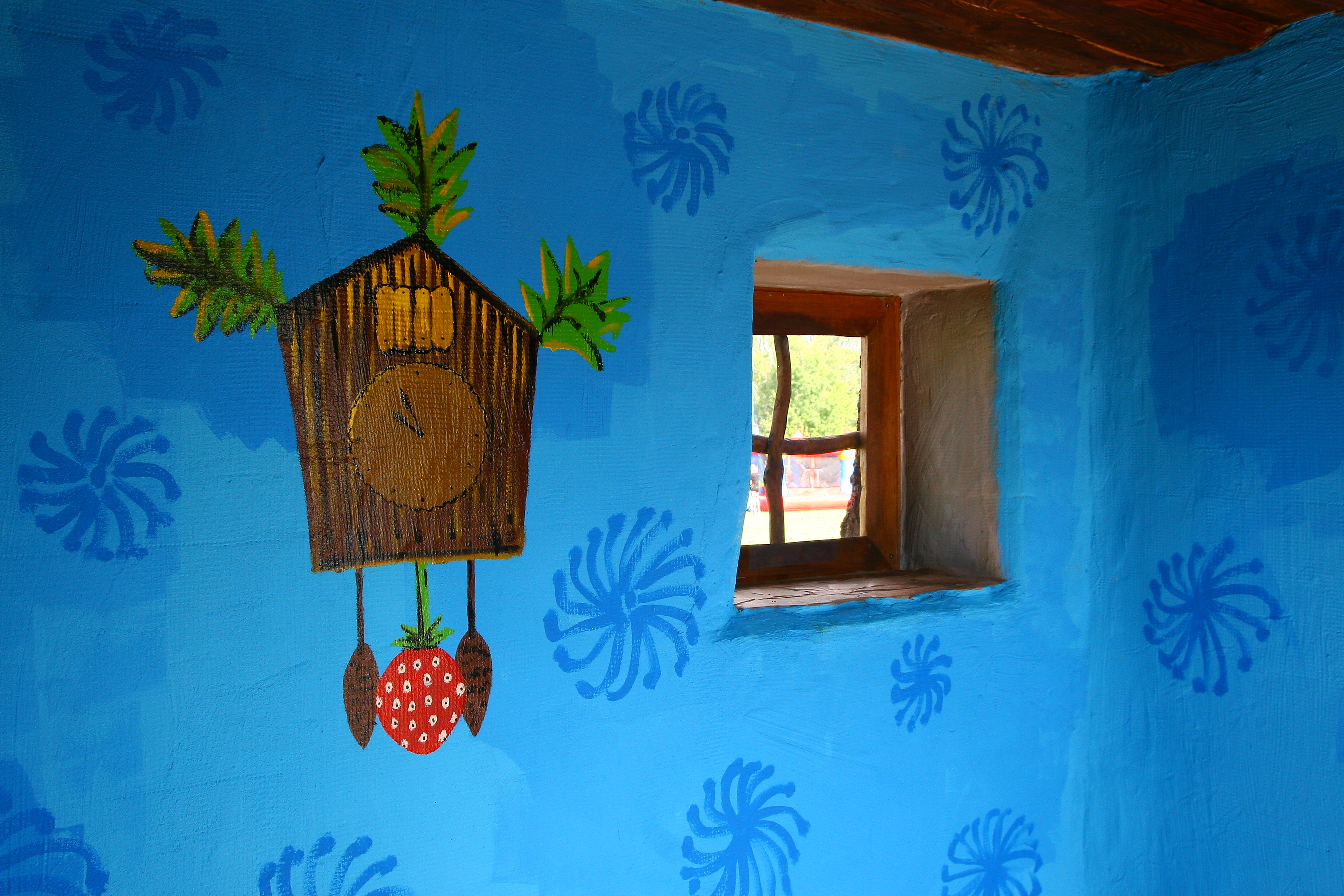 A cuckoo clock and a windows in interior of bus shelter in Němčovice, Rokycany District, Czechia.